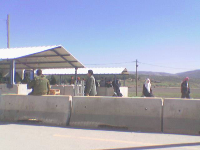 picture of the Entrance to Huwara checkpoint taken on 14 February 2005 from the southern entrance of the checkpoint, made by camera of my mobile, the image can be used freely on wikipedia and other free documents.